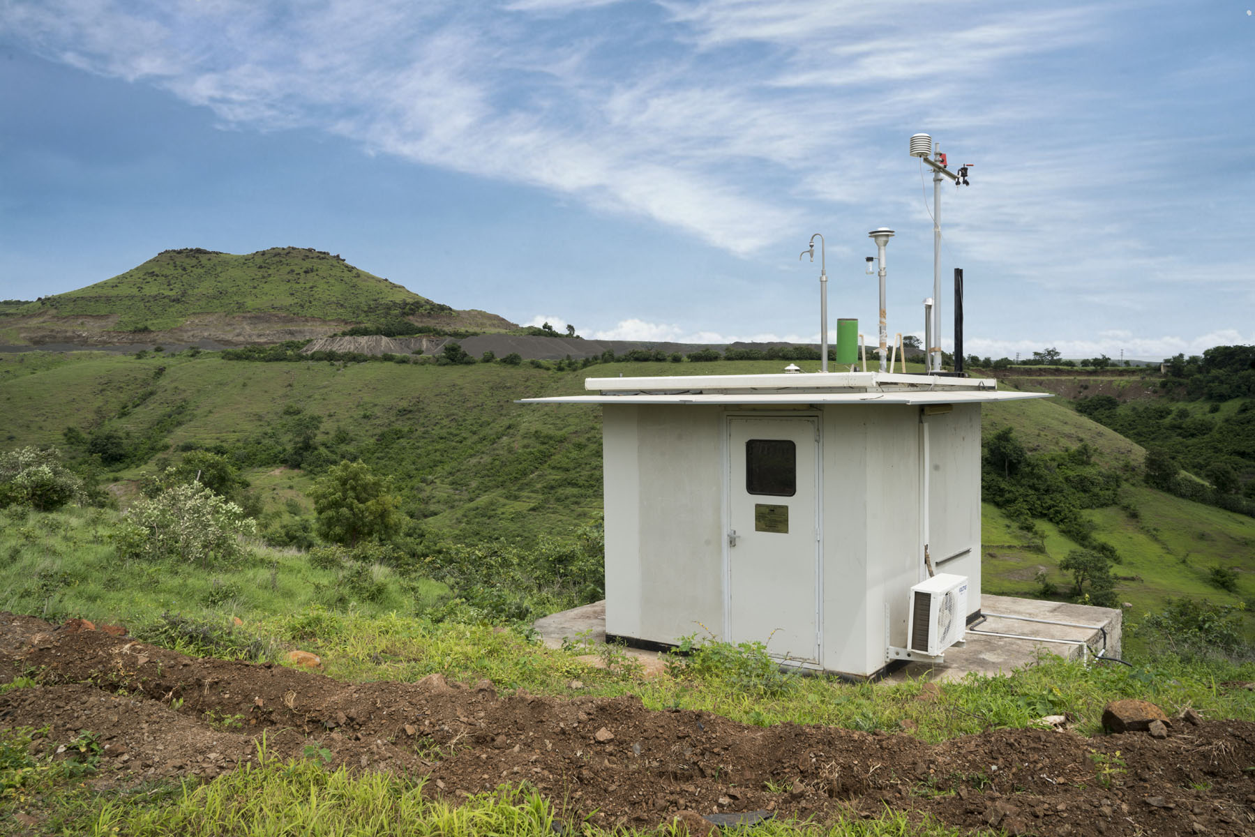 Tower House